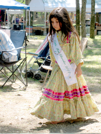 Little Miss Cherokee (Age 4-5) at Cherokee National Holiday, Park Hill, Oklahoma, 2007